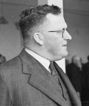 William Sheat, a member of the National Party cabinet